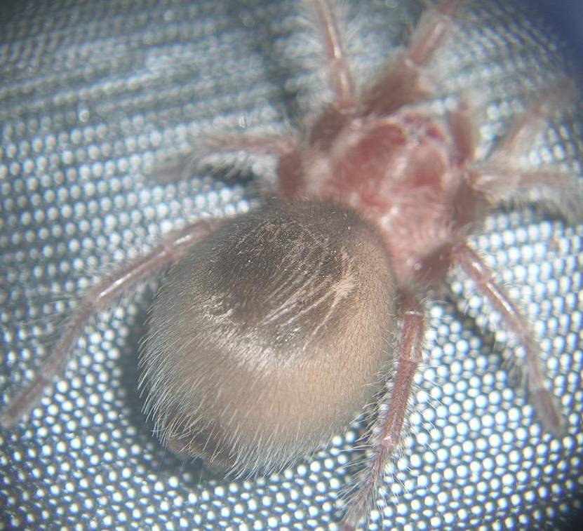 Lines without hair on the spider back.